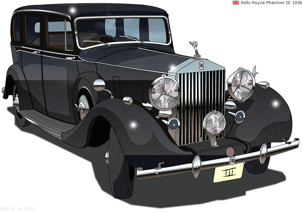 1936 Rolls-Royce Phantom III